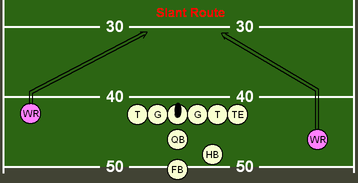 slant route